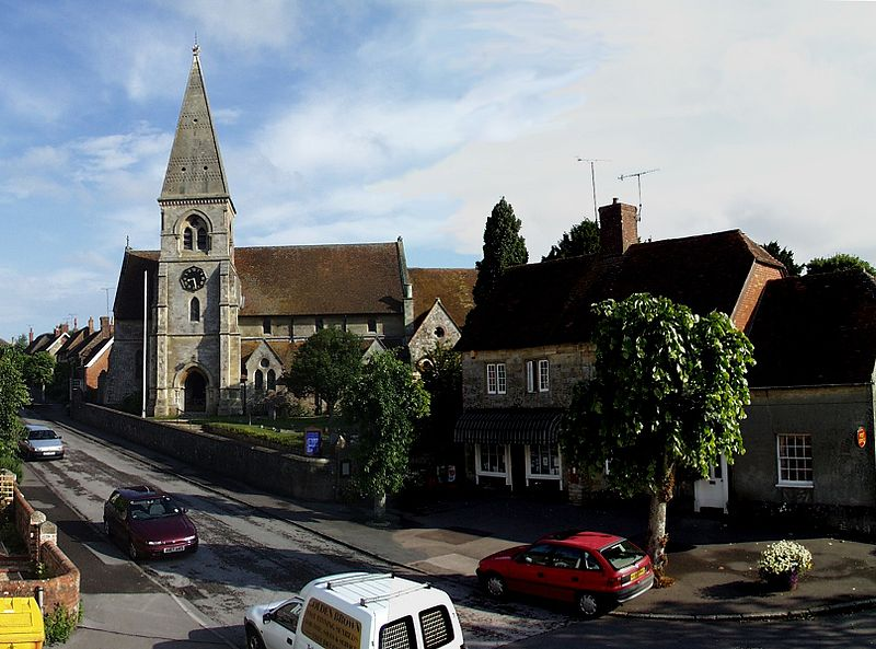 St. John the Baptist Church (left) and the Hindon Post Office (right)(2001).